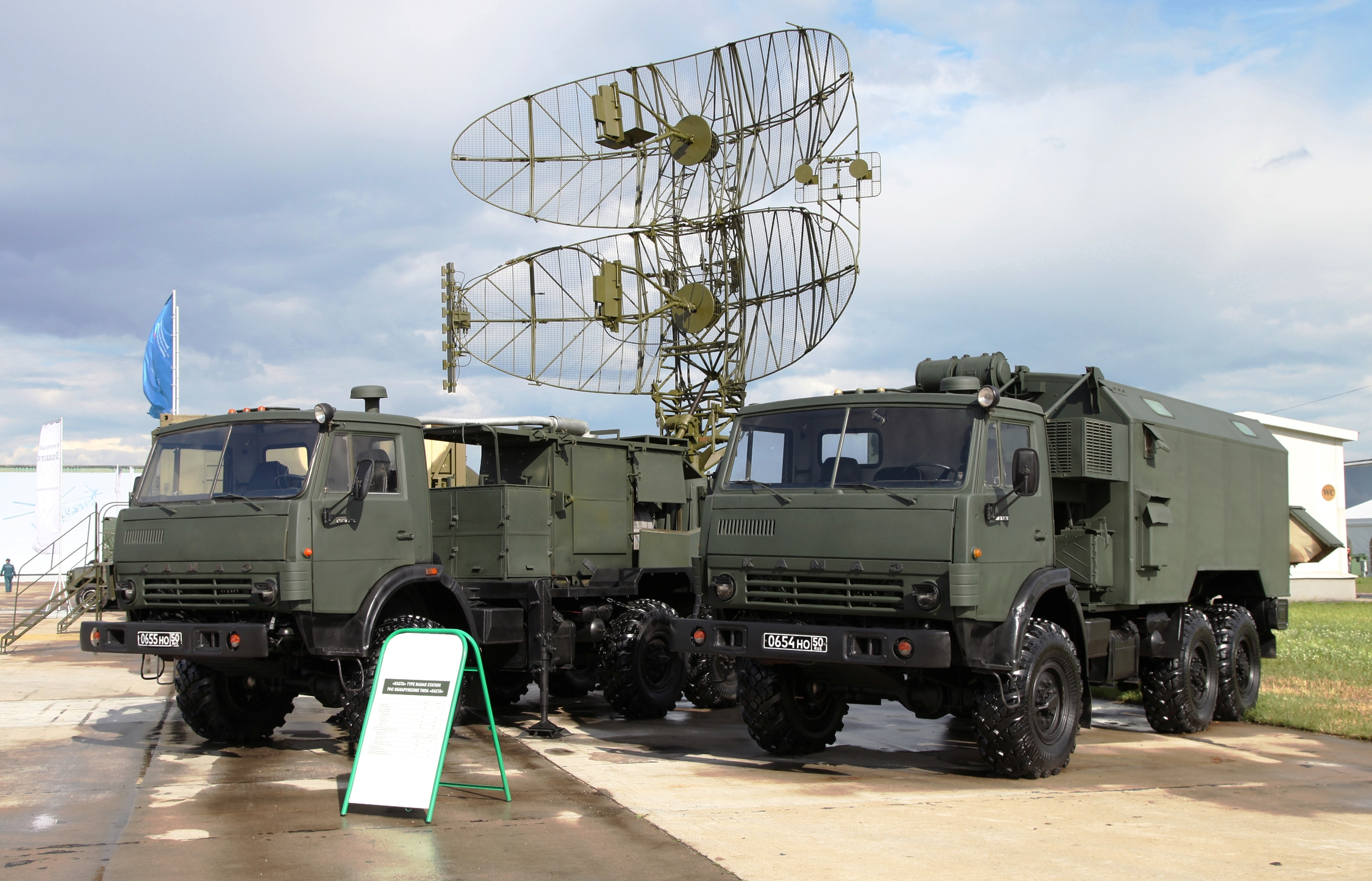 A 35N6 Kasta radar at Engineering Technologies 2012 international forum.